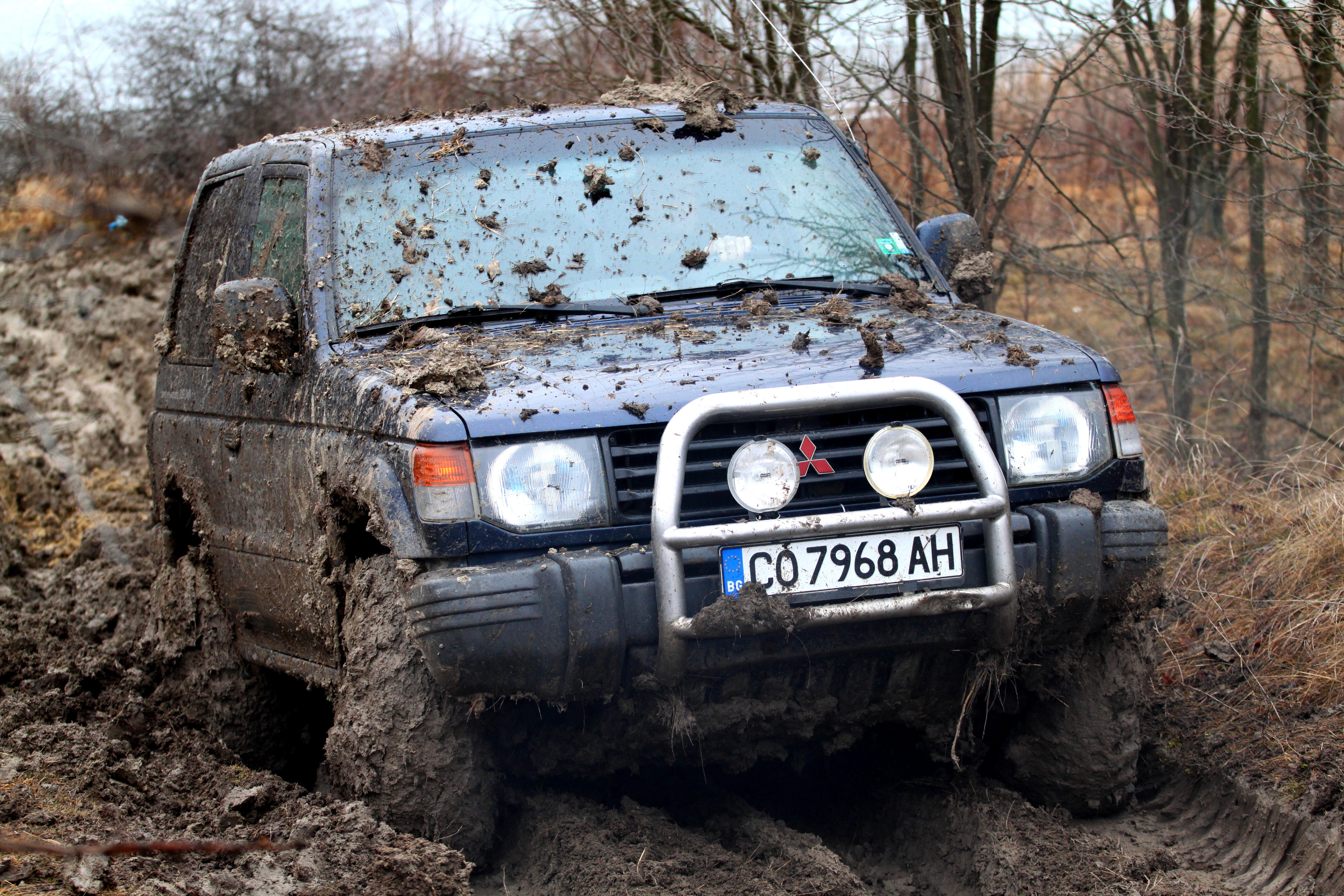 Mitsubishi Pajero in off-roading, near Slivnitsa, Bulgaria